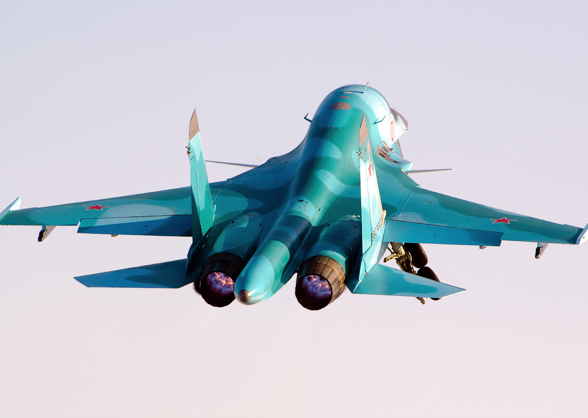 Sukhoi Su-34 at take-off